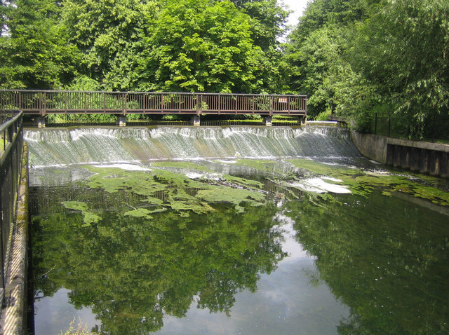 River Beane: Cedar Close Weir in Hertford. The weir sustains a head of water to feed down a separate leat to the former Sele Mill 137053.